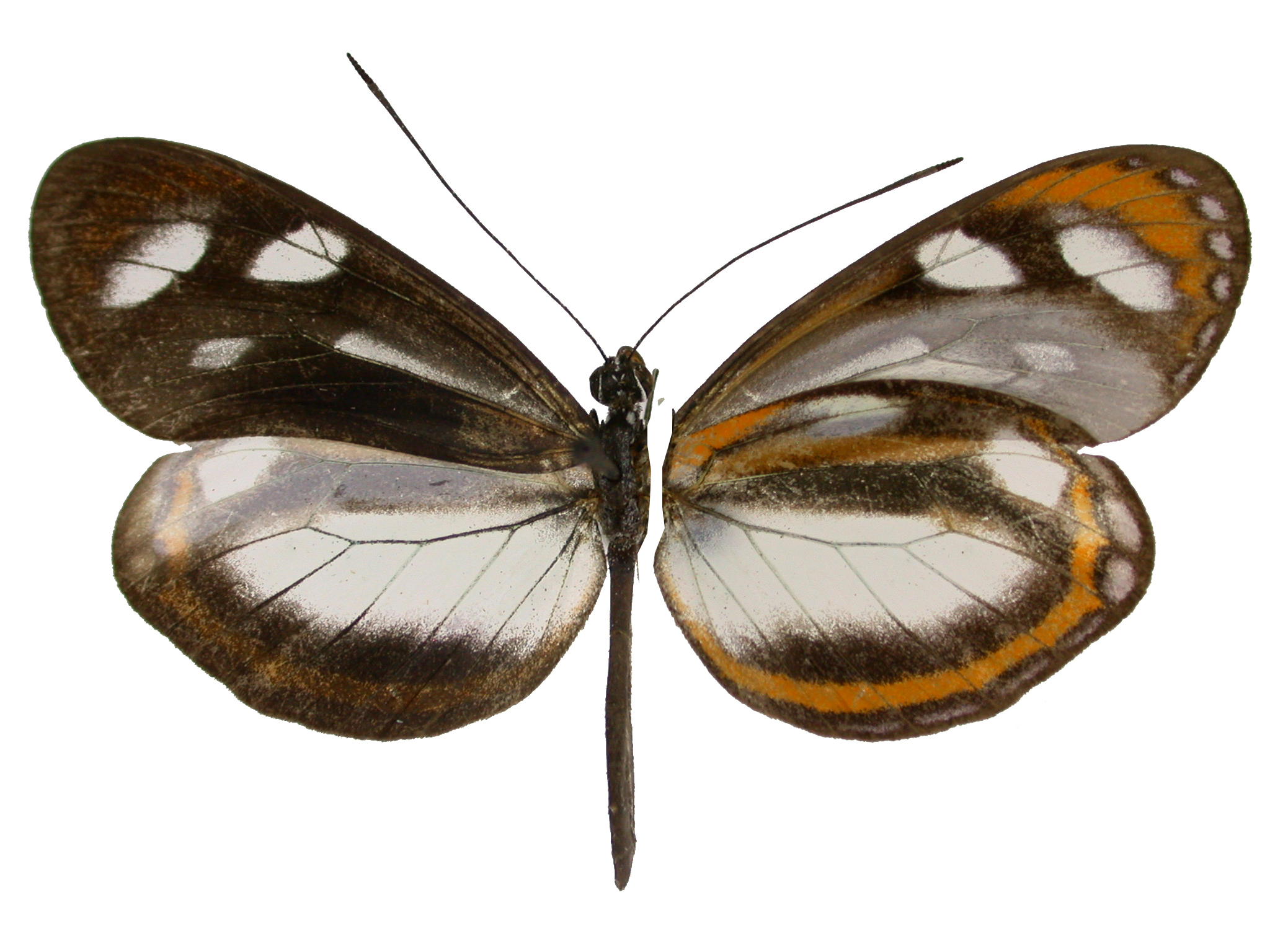 Dismorphia theucarilla